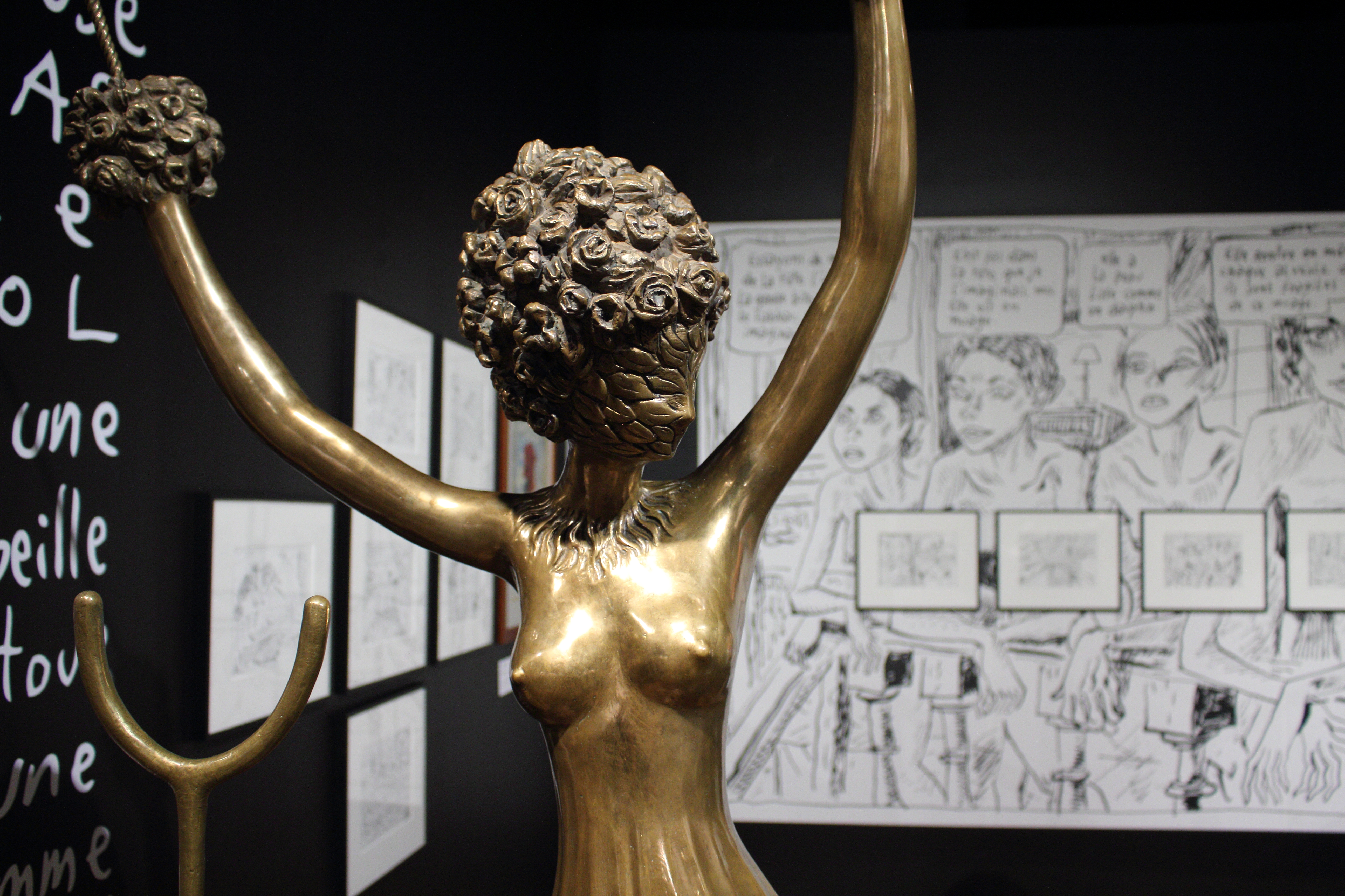 Joann Sfar - Salvador Dali, une seconde avant l'éveil, a exhibition at the Espace Dali, Paris, France.